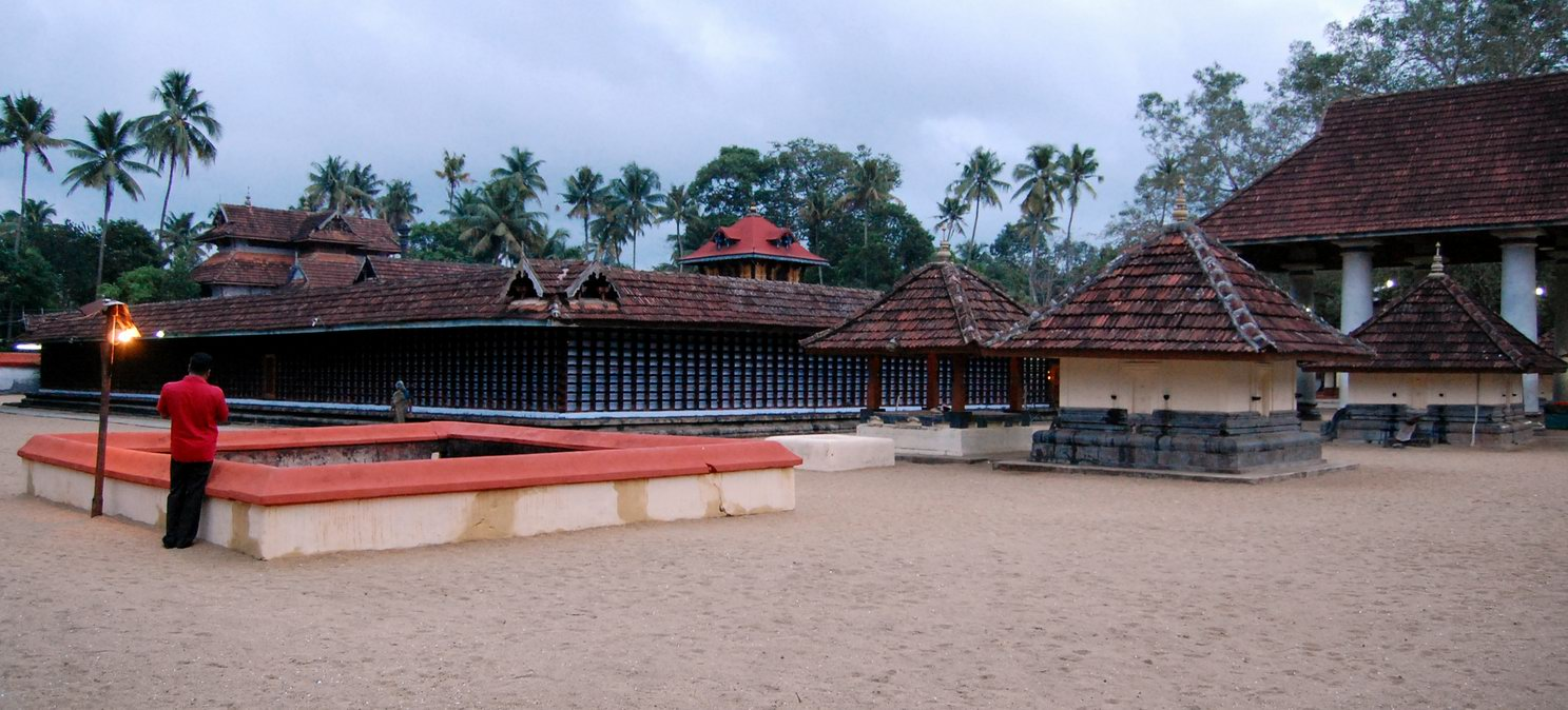 Thiruvanchikkulam Sivatemple